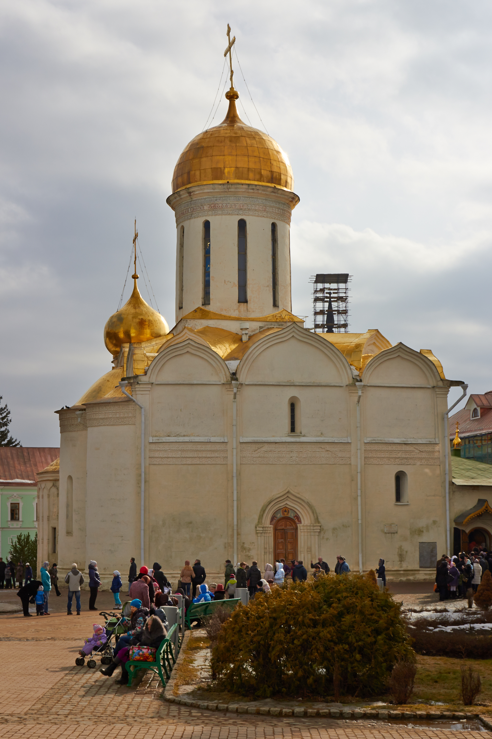 Trinity Cathedral, Trinity Lavra of St. Sergius